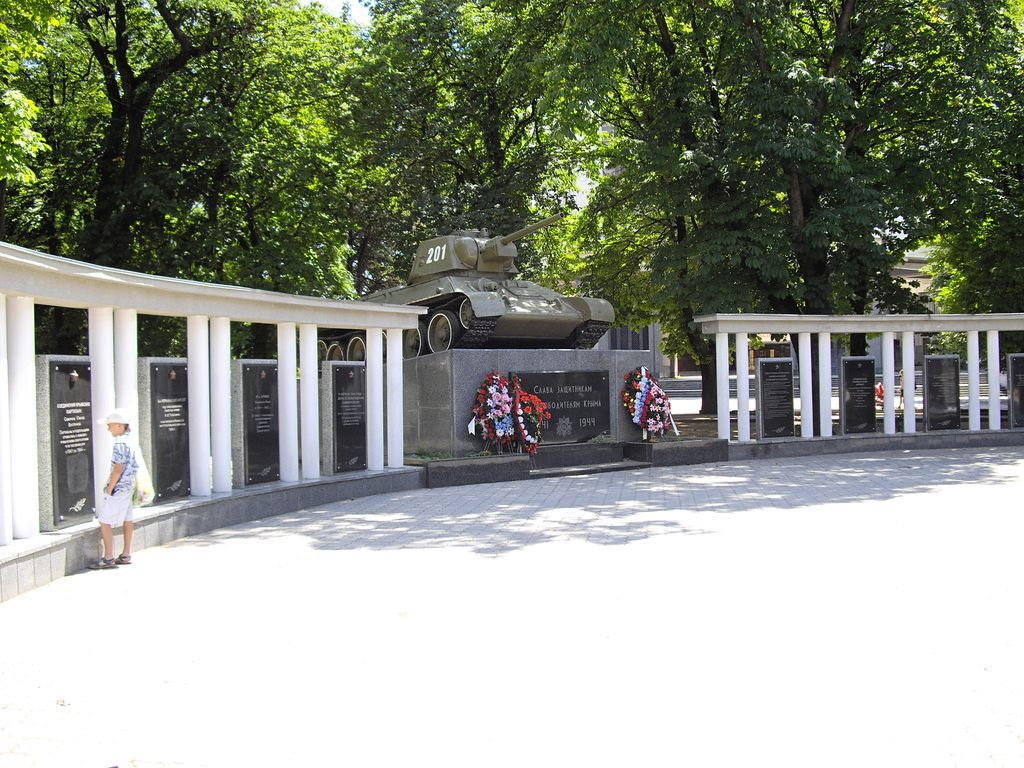 Tank OT-34 in Simferopol